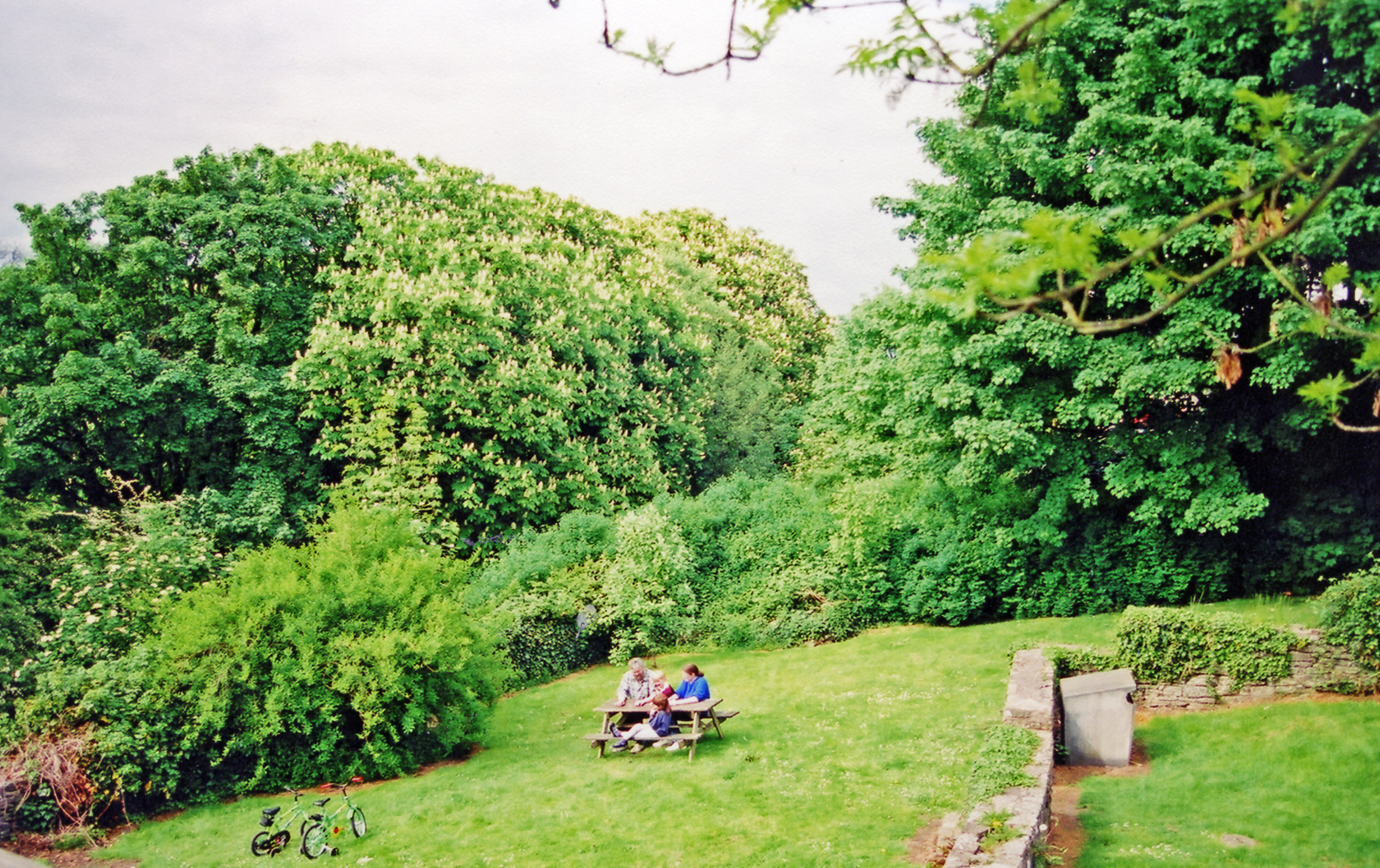 Hay-on-Wye: site of former station, 2001. View NE from east side of B4351 bridge over the River Wye, towards Hereford where the station on the ex-Midland Hereford, Hay and Brecon line had been until closed entirely since 31/12/62.